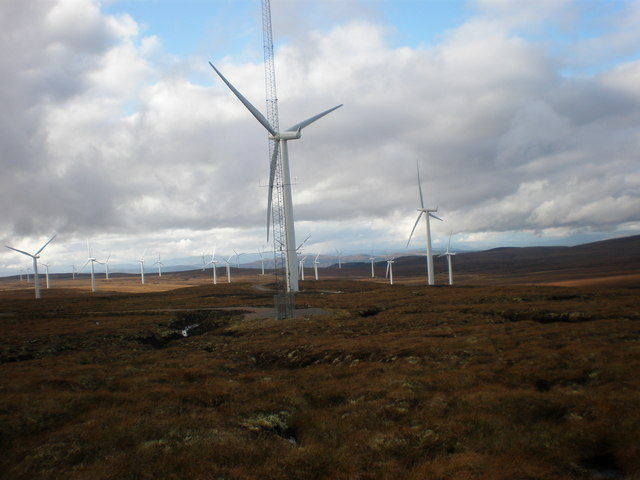 Approaching Wind Farm from East